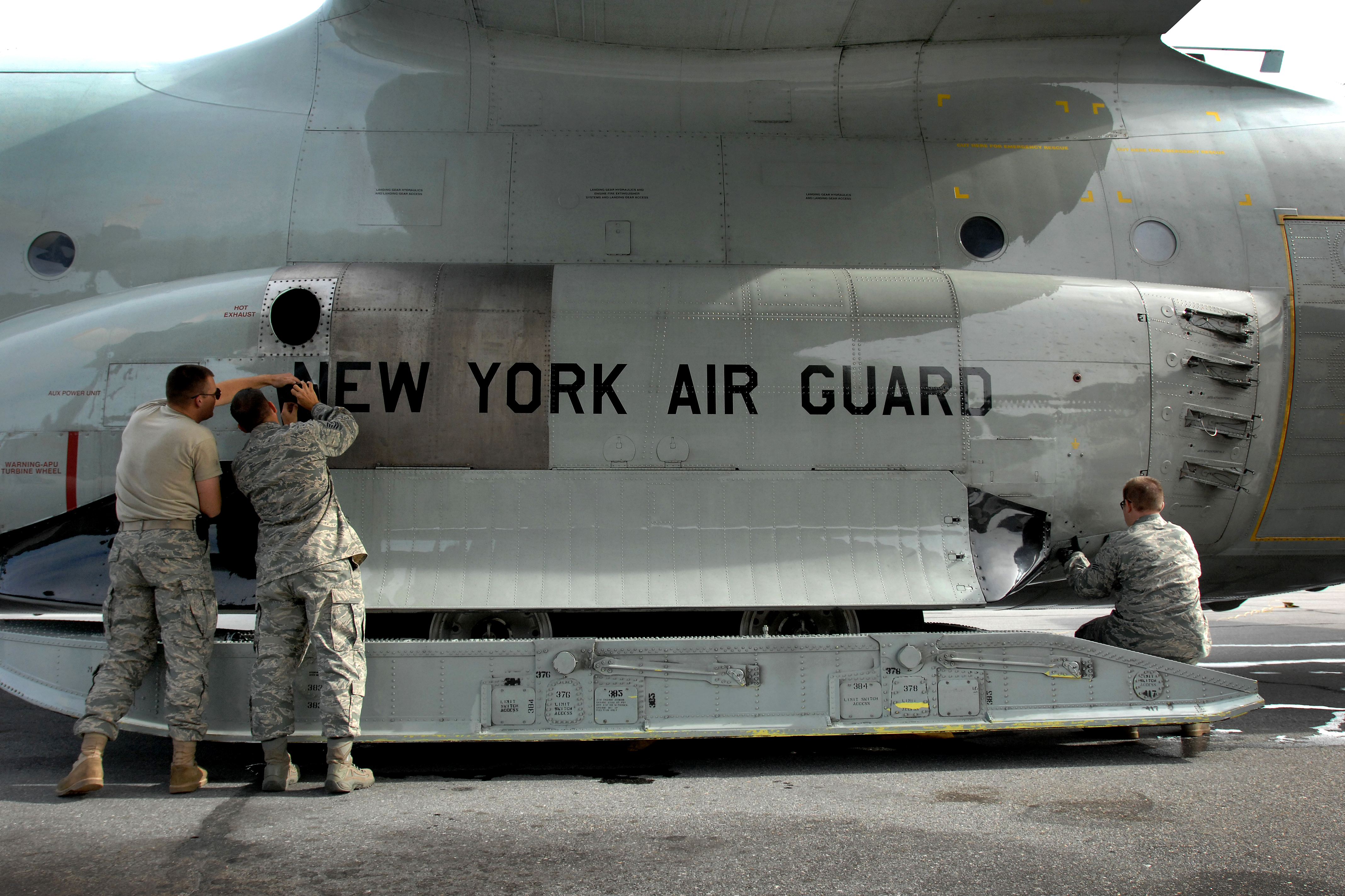 The maintenance crew with the New York Air National Guard’s 109th Airlift Wing performs its checks on a ski-equipped LC-130 Hercules cargo plane following a mission to one of the remote science outposts in Greenland, July 29, 2010.